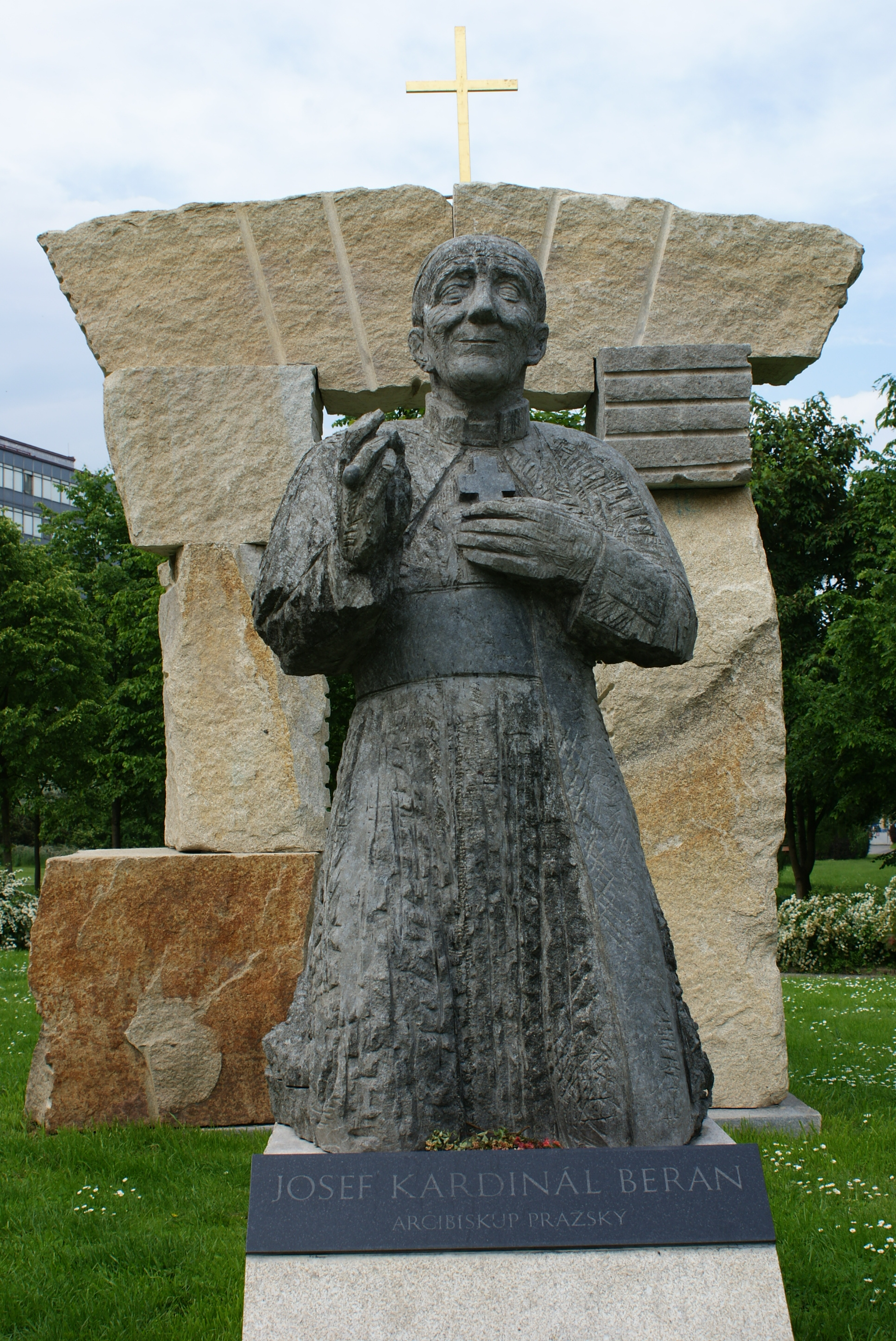 Photo of statue of Josef Cardinal Beran near Catholic Faculty in Prague